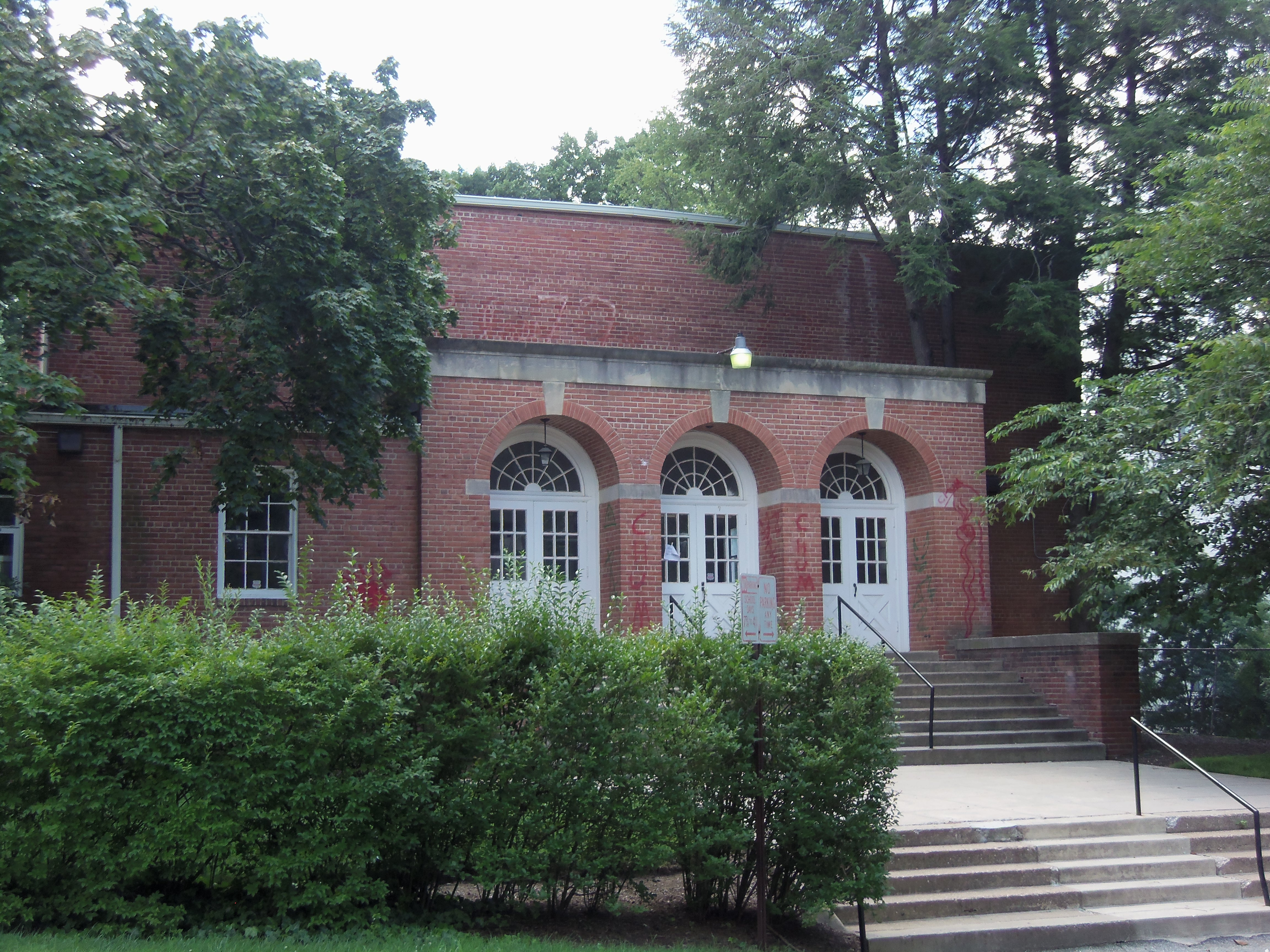 The Academy of the Holy Names was a Catholic girls high school located in Silver Spring, Maryland. It was operated by the sisters from 1936-1988. After which it became the Chelsea School from 1988 - 2012. The property is being redeveloped for townhouses as of 2013.